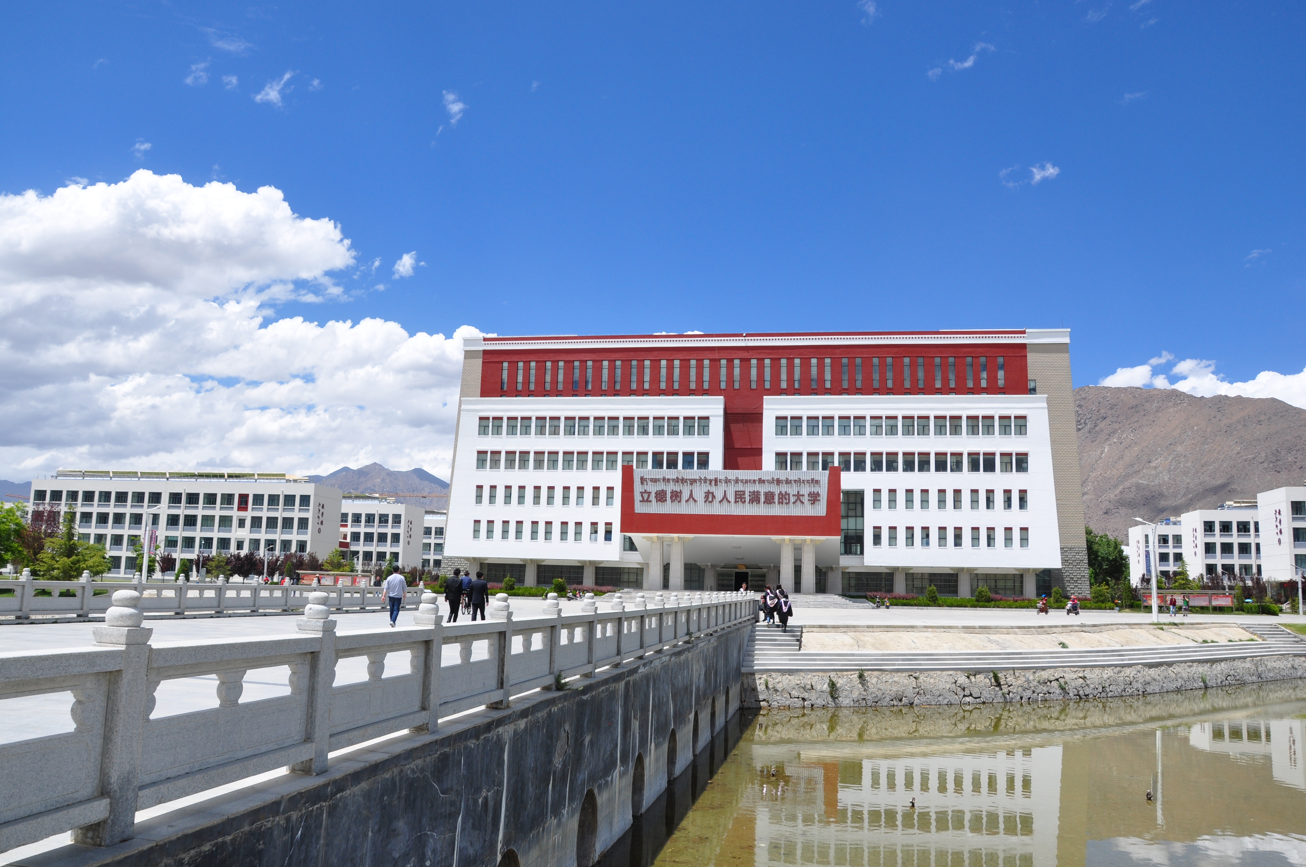 This is a photo shoot on the campus bridge looking through the library at TU.